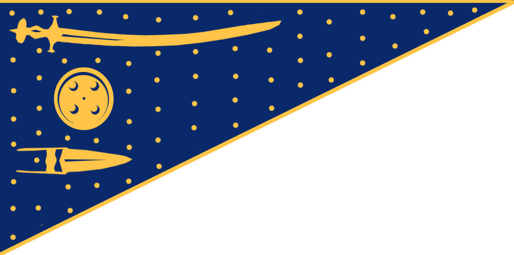 Banner of Old Sikh warrior bands during Mughal-Sikh Wars (or later)